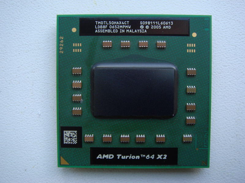 Processor AMD Turion 64 X2